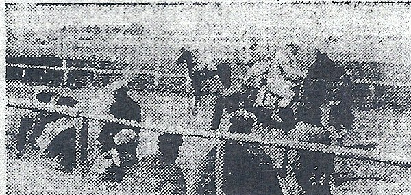 1933年4月19日に現在の宮城県登米市で行われた競馬の光景です